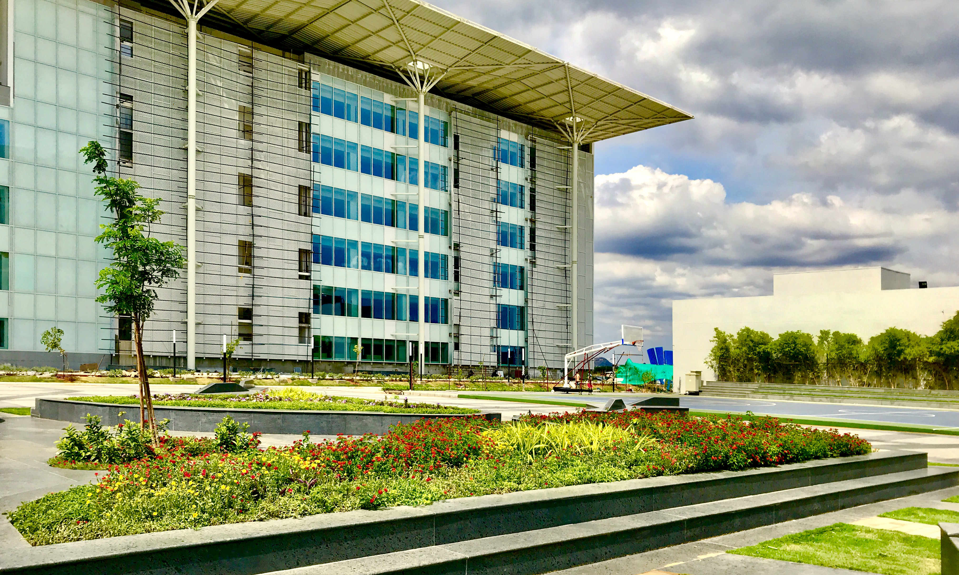 SRM was the 2nd University to setup in Amaravati and was designed by Perkins and Will